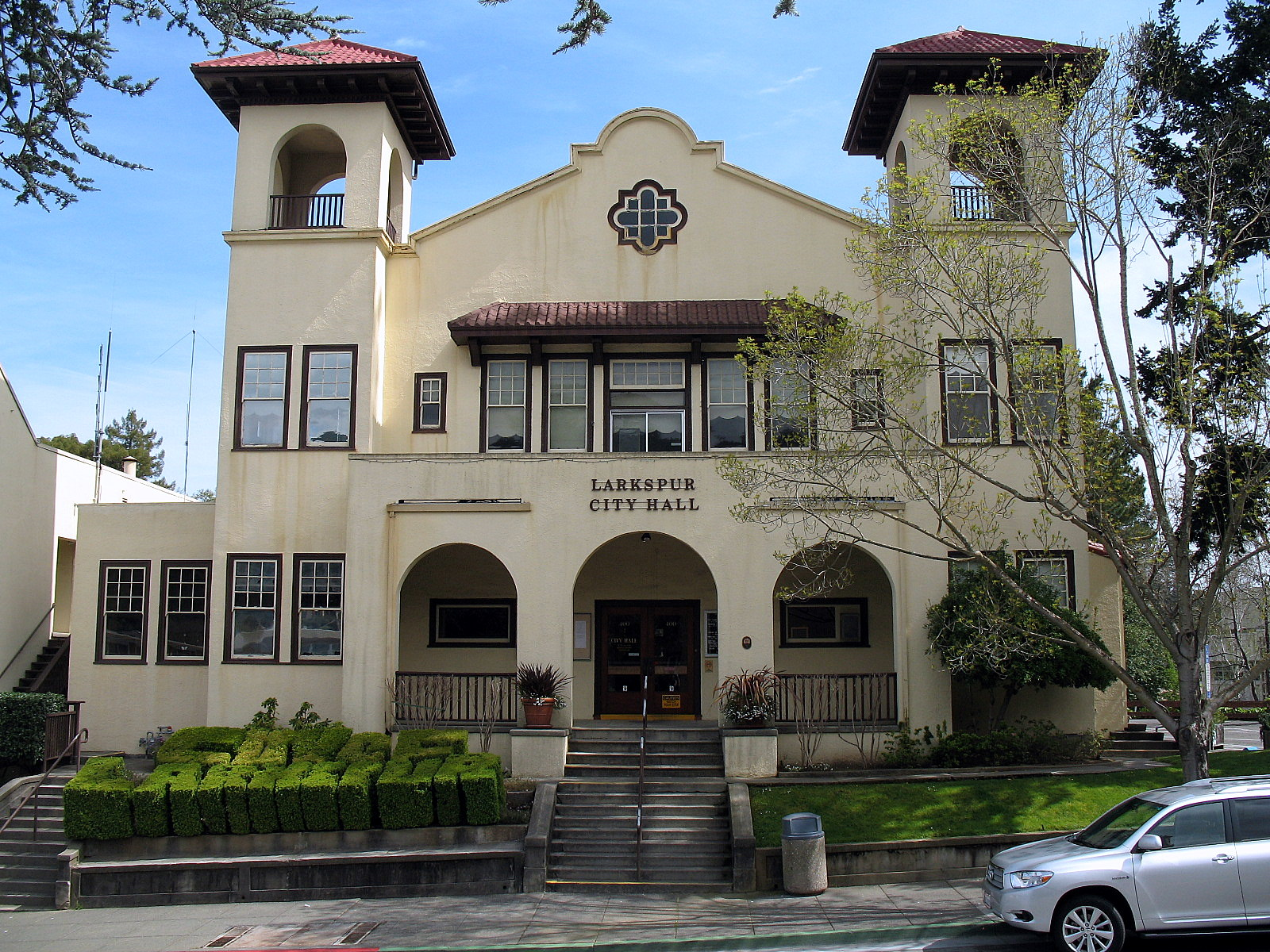 Larkspur City Hall — 400 Magnolia Ave., Larkspur, Marin County, California. Contributing property of the Larkspur Downtown Historic District, and on the National Register of Historic Places in Marin County. Photographed from the west side of Magnolia Ave. near the intersection with King St.